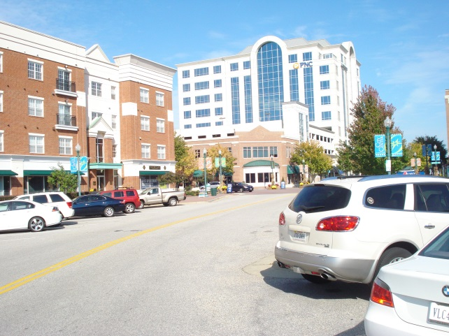 This is a picture of the downtown Newport News skyline from the 26th Street overpass over I-664 on the morning of August 30, 2013